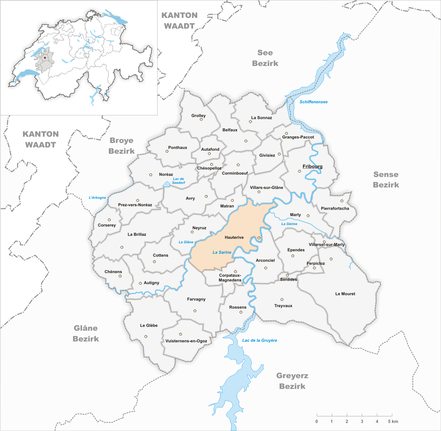 Municipality Hauterive